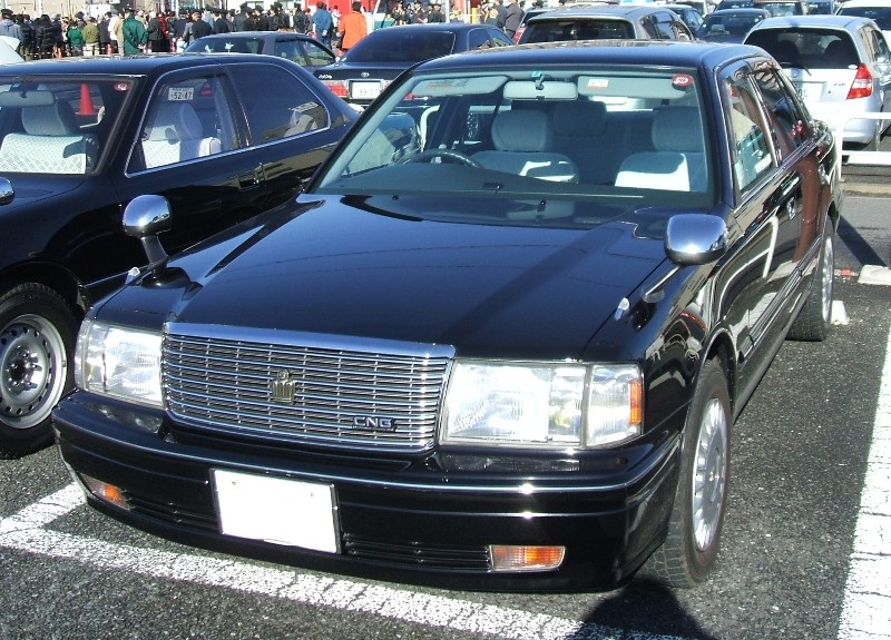 Toyota Crown CNG.